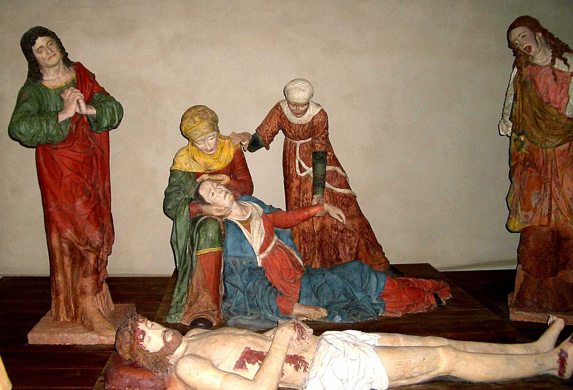 Unknown artist follower of Guido Mazzoni, Lamentation over the Dead Christ, Parish church "Assumption of Virgin Mary", Medole, (Mantua), (Italy)